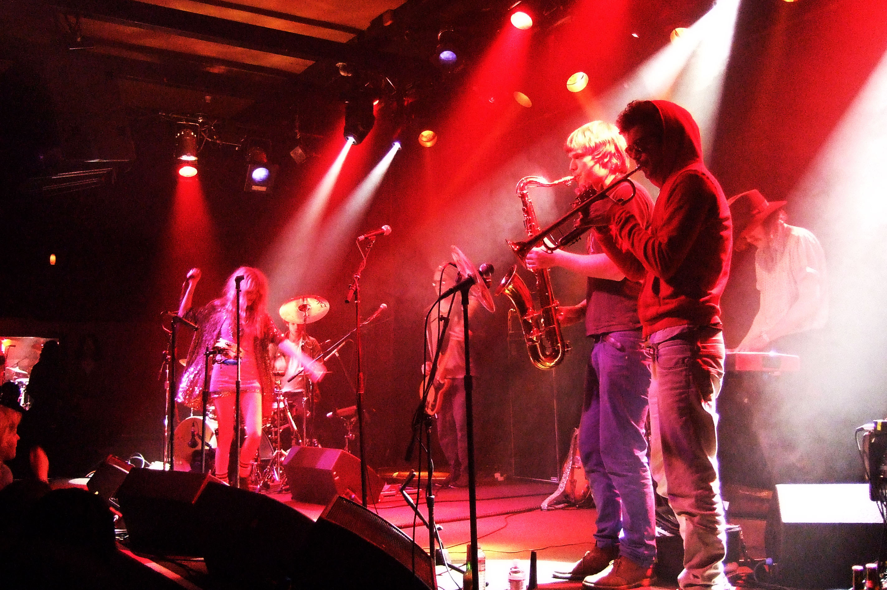 At The Independent.